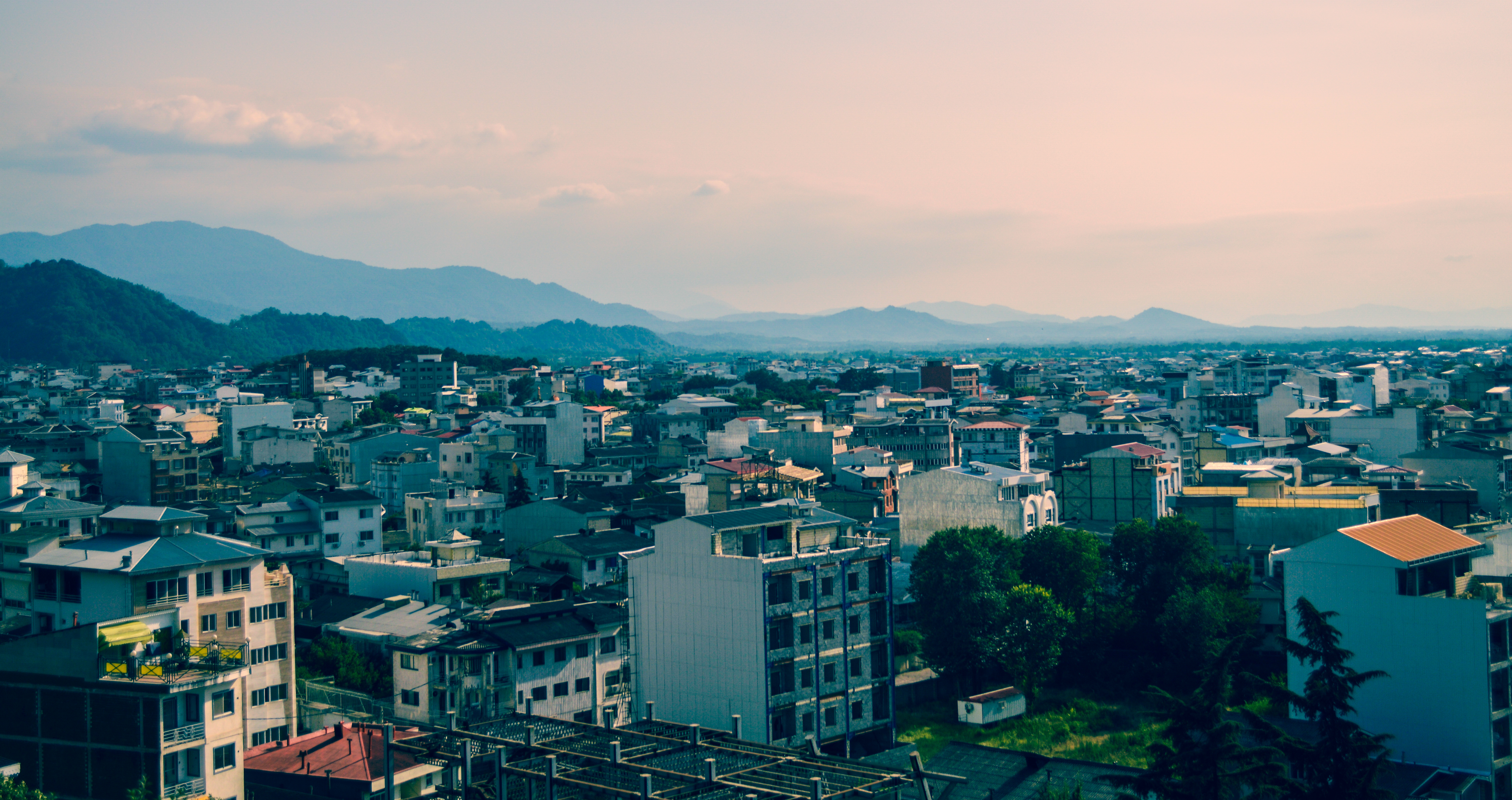 Lahijan II